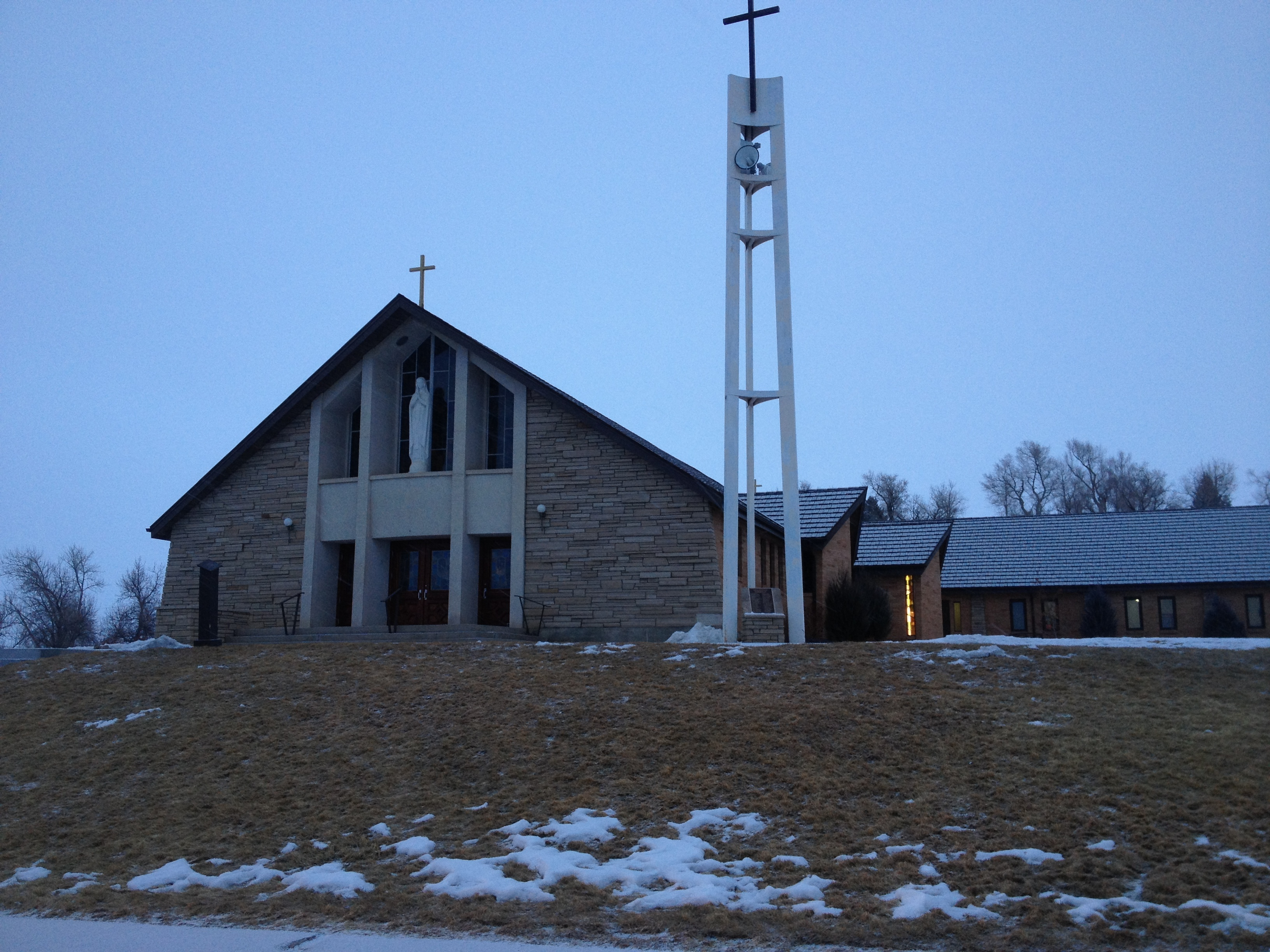 This is the church from the front in January 2013. The white tower is where the bells ring from.